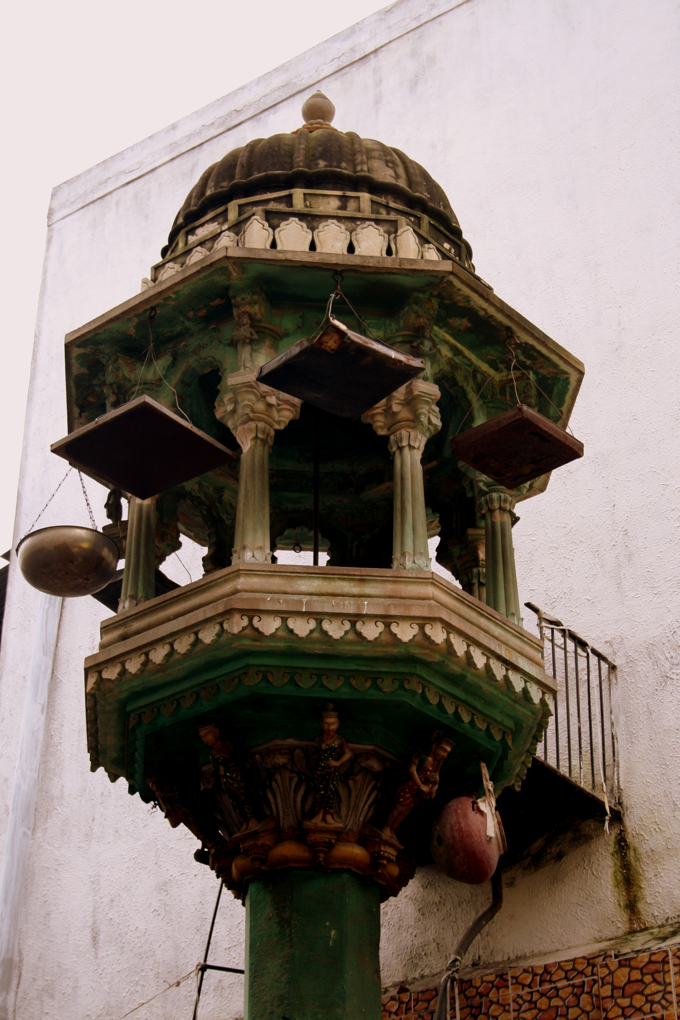 Bird feeders (Chabutaras)